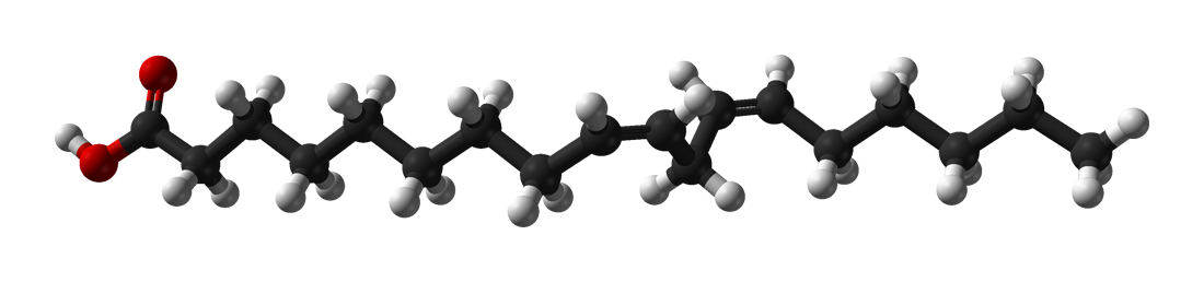 Ball-and-stick model of the linoleic acid molecule, C18H32O2, as found in the crystal structure. X-ray diffraction data from Z. Naturforsch., B (1979) 34, 706-711. Model constructed in CrystalMaker 8.1. Image generated in Accelrys DS Visualizer.